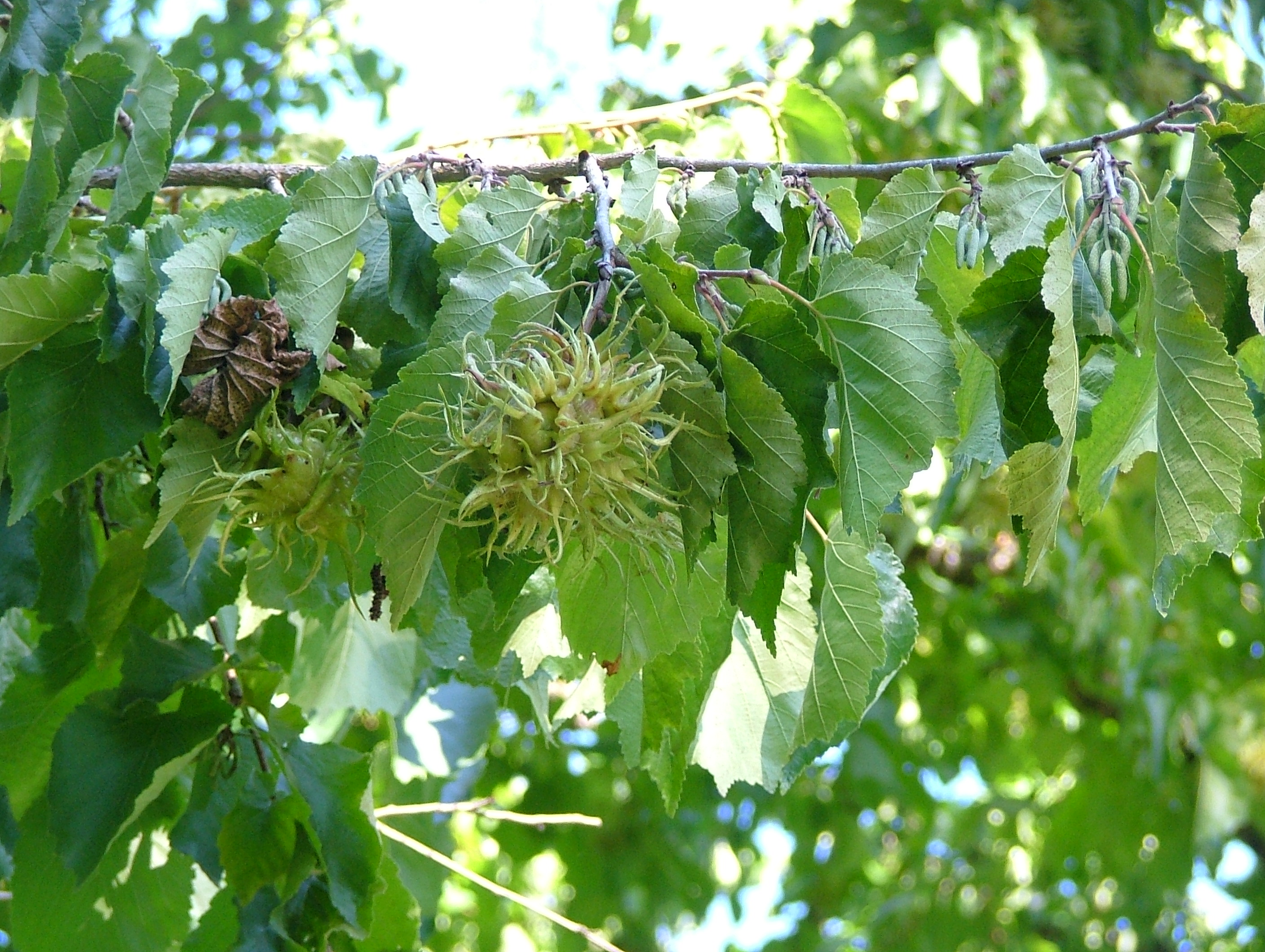 Corylus colurna